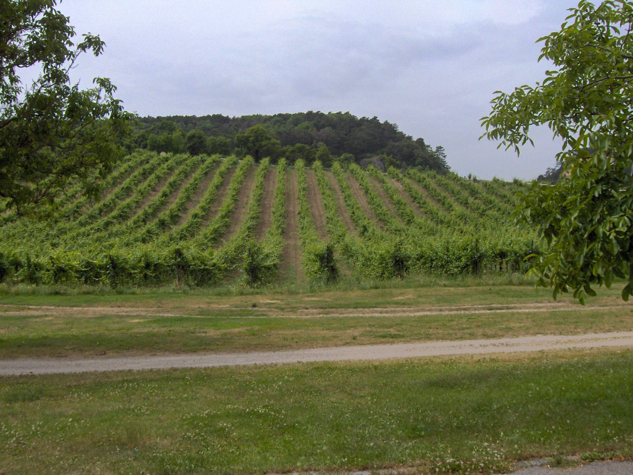 Vineyards at Gumpoldskirchen, Austria